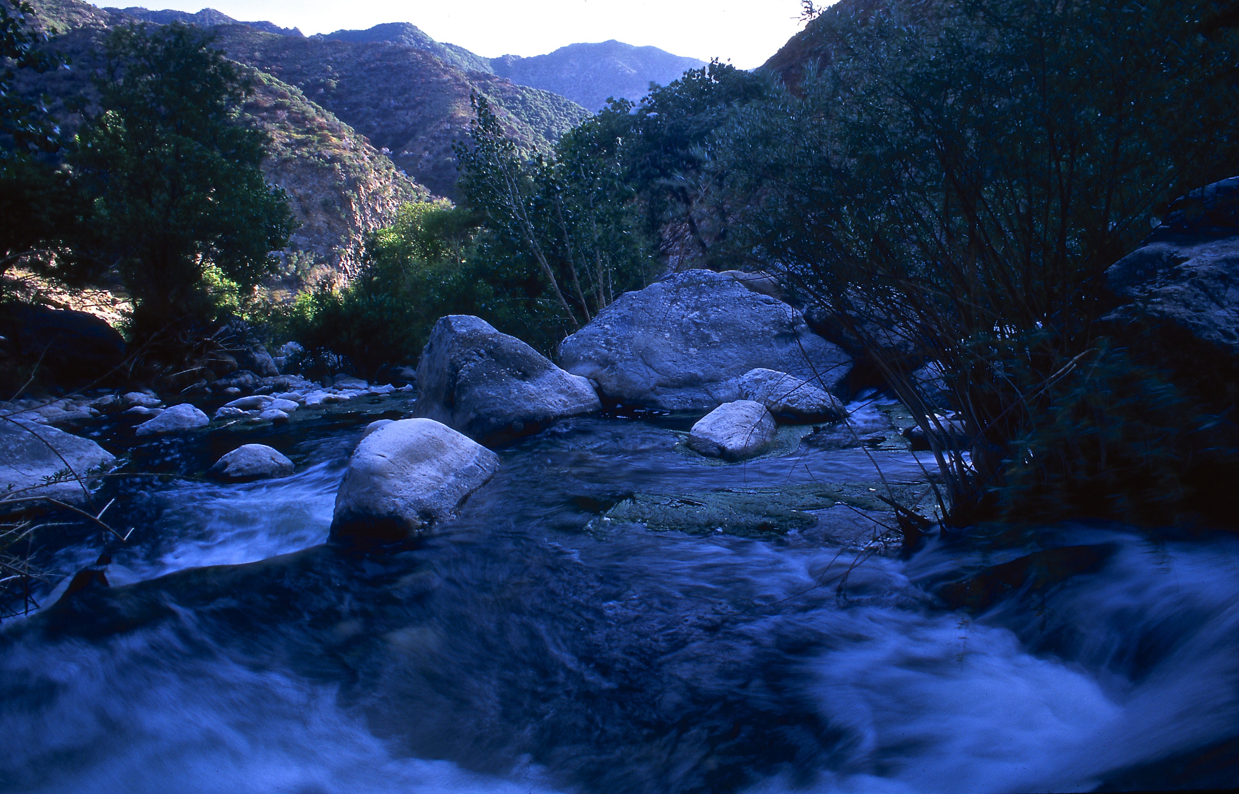 Piru Creek below Pyramid Dam. Angeles National Forest, California. (Forest Service photo by Tim Palmer)